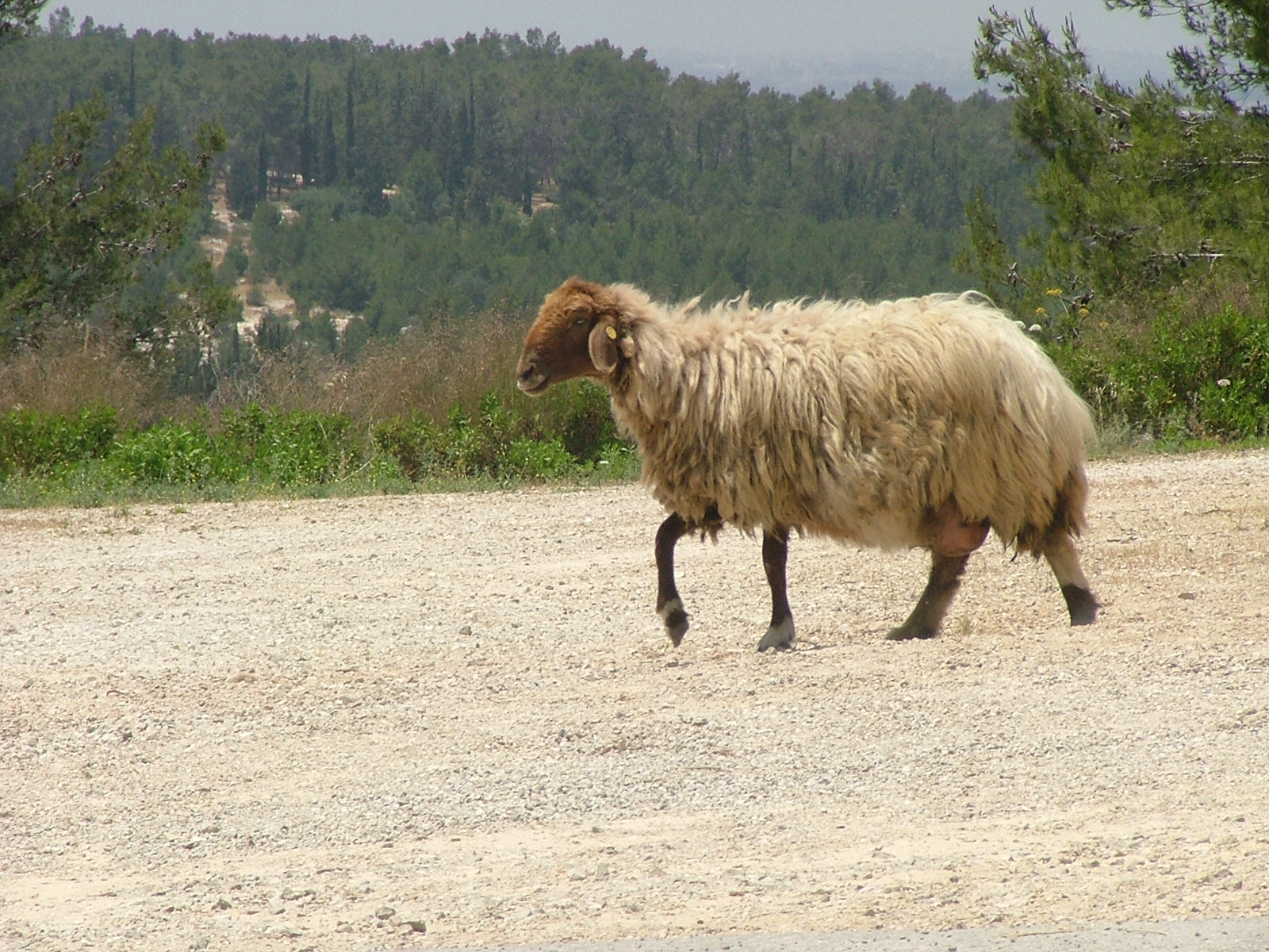 An Awassi Sheep in Israel.